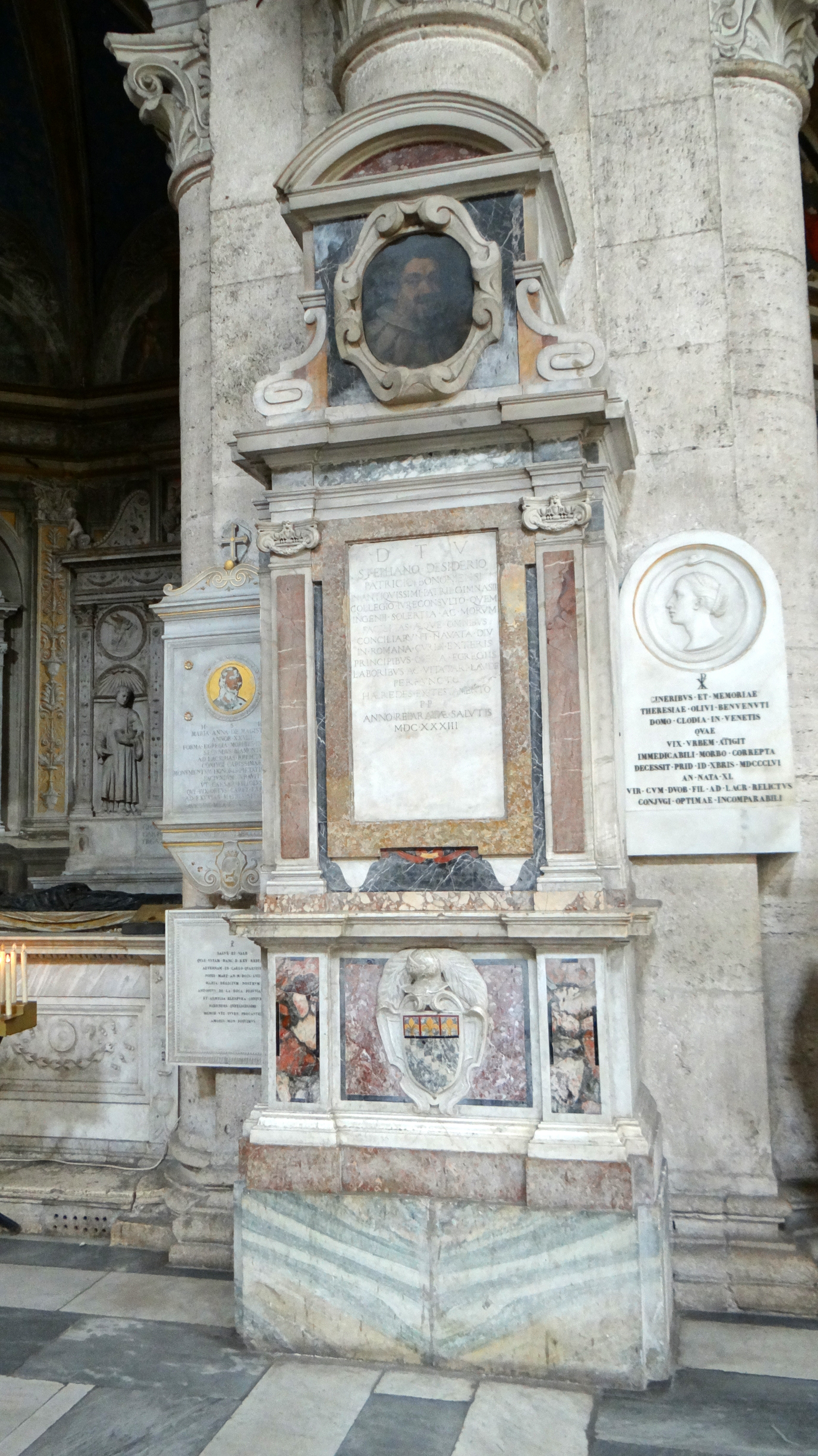 The tomb of Stefano Desiderio in the Basilica of Santa Maria del Popolo, Rome (after 1638). Funeral steles of Teresa Olivi Benvenuti (1856) and Maria Anna de Magistris (1856).